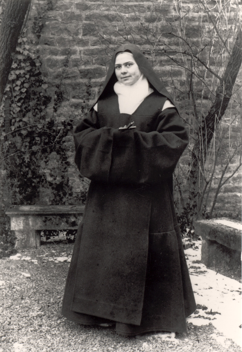 Full Portrait Picture of Elisabeth of the Trinity wearing her Carmelite habit